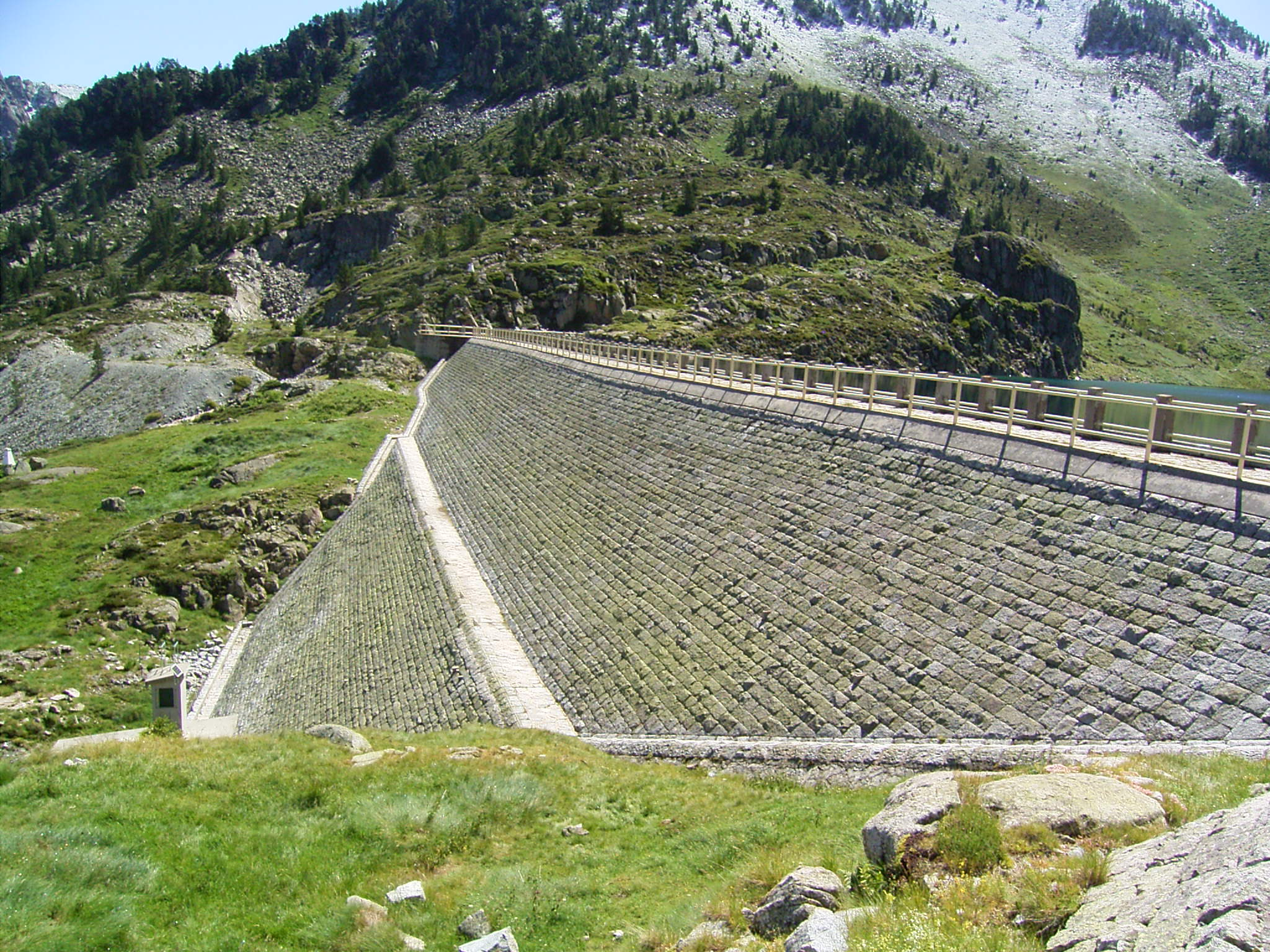 Dam of the lake "dets Coubous", Pyrénées, France